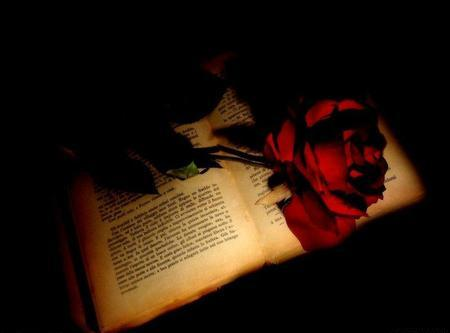 A Vampire Love (A Vampire Love) is a vampire romance novel youth-oriented, written by Costa Rican writer Mario A. Leiton and announced in 2010. This is a young vampire who falls for a girl after he moved to Venice, and this guy confusing without understanding what happens to this girl, until she discovers he's in love. Passing the time the young vampire will realize his love for the girl is bigger than his thirst for blood. The book is in the process to be followed for a series announced. Its pages will soon be in wall.